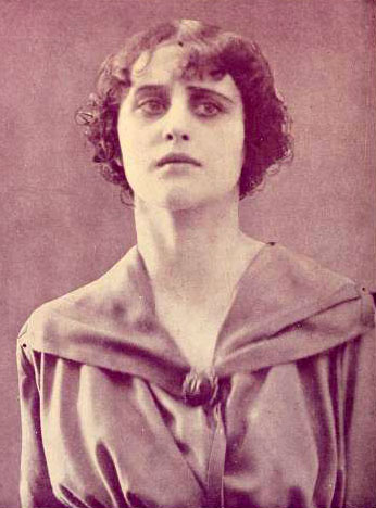 Advertisement in Moving Picture World, Aug 1917